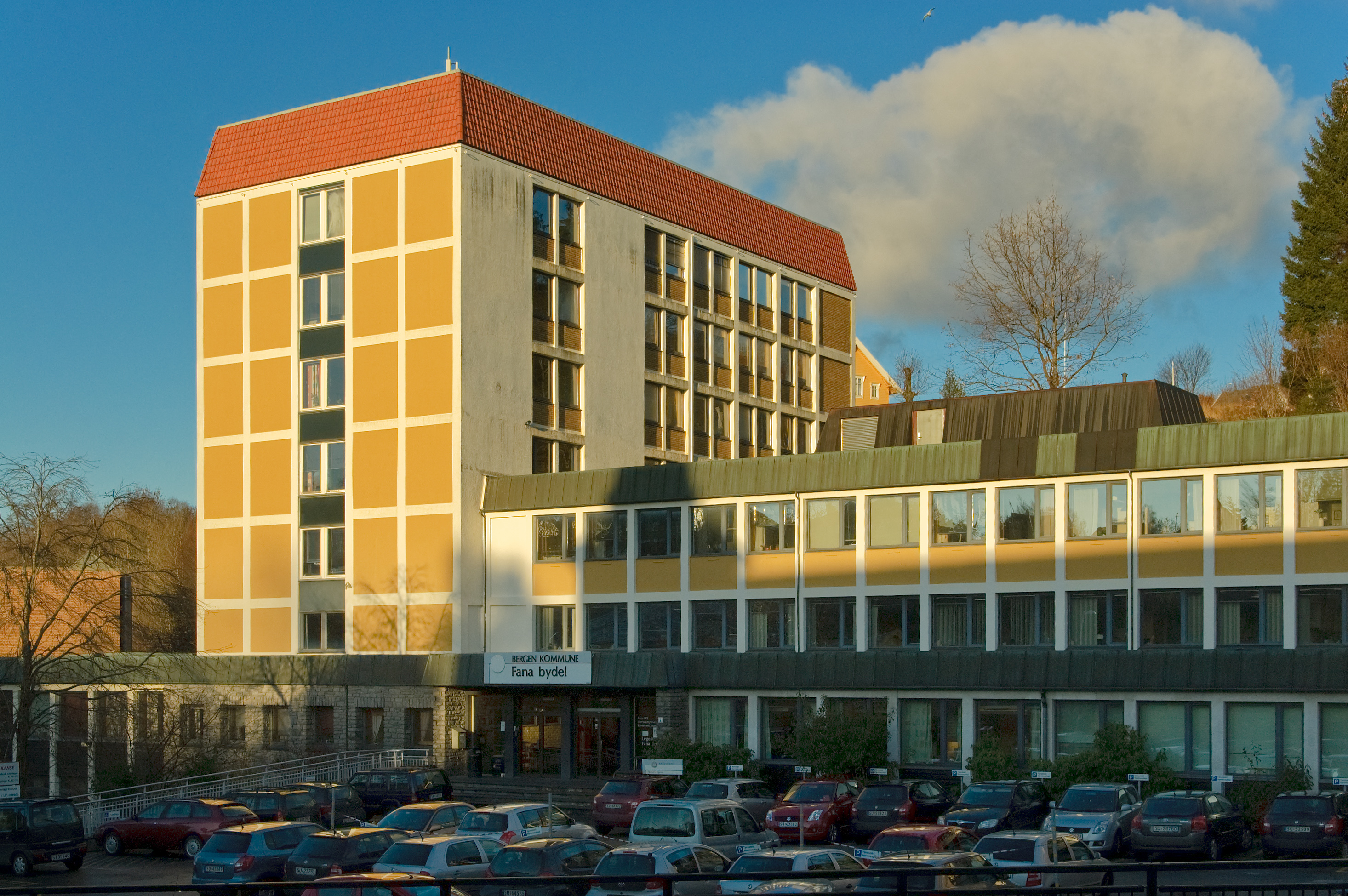 Administration building of Fana borough in the city of Bergen, Norway.